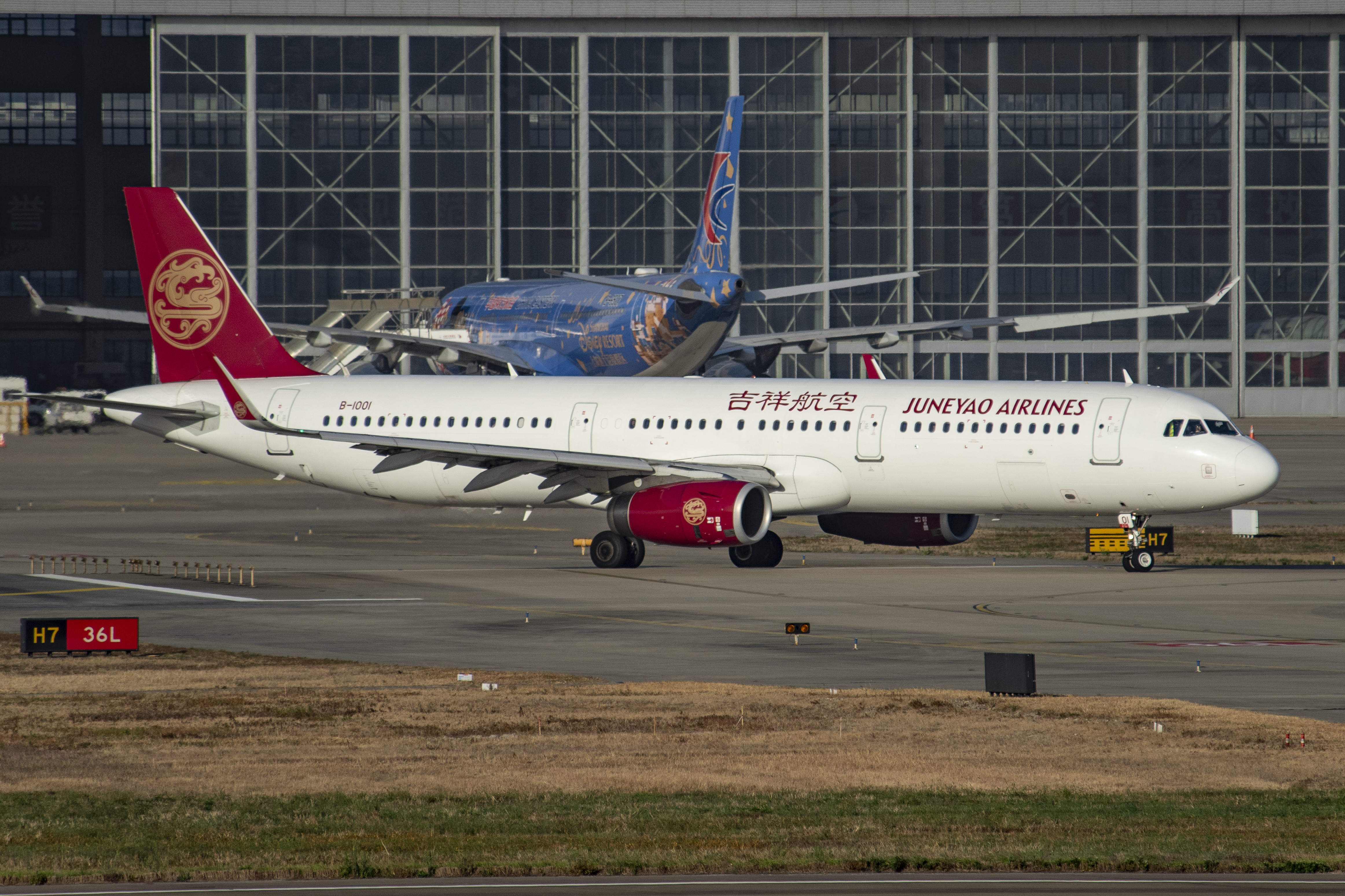 Juneyao 1257 to Beijing-Daxing.